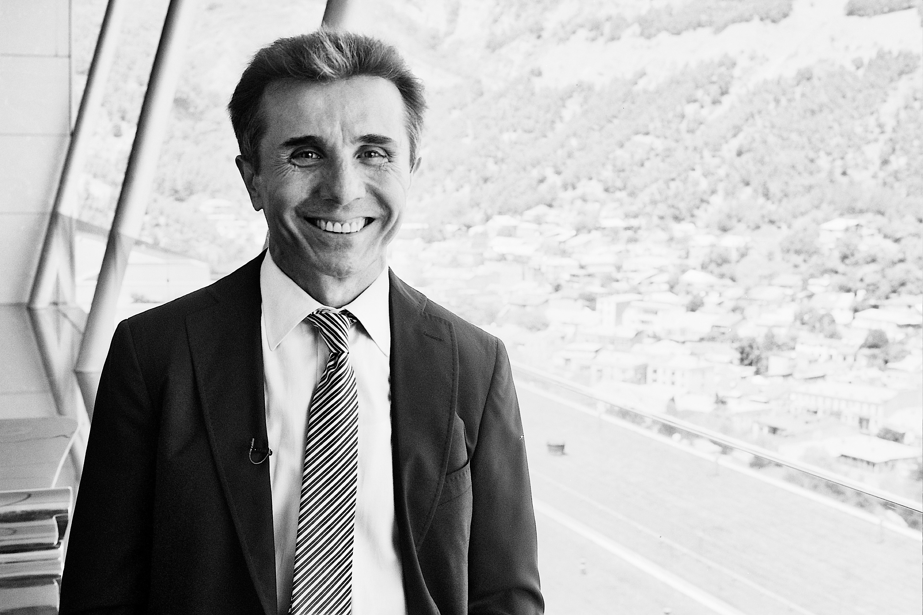 Bidzina Ivanishvili